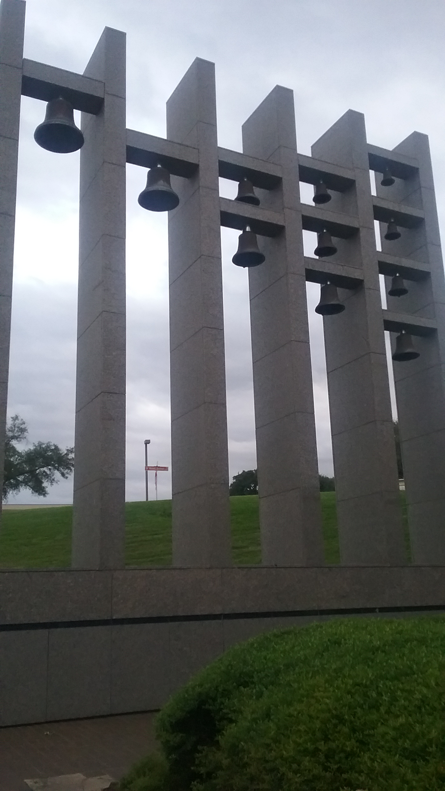 Bass Concert Hall Courtyard Gallery, Pictures of the Burleson Bells at the University of Texas at Austin. Retired from the Tower in 1981.